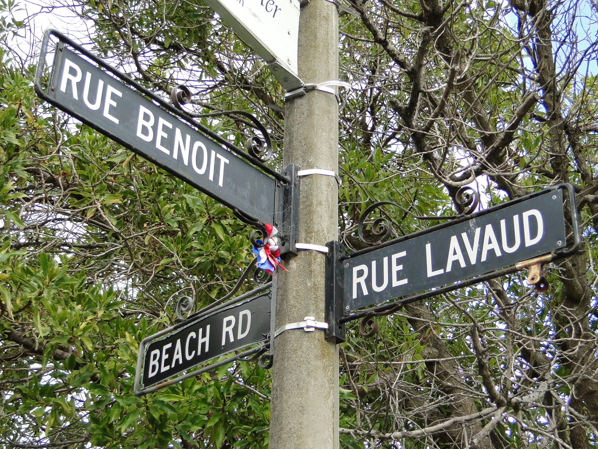 An Akaroa street sign showing French streetnames